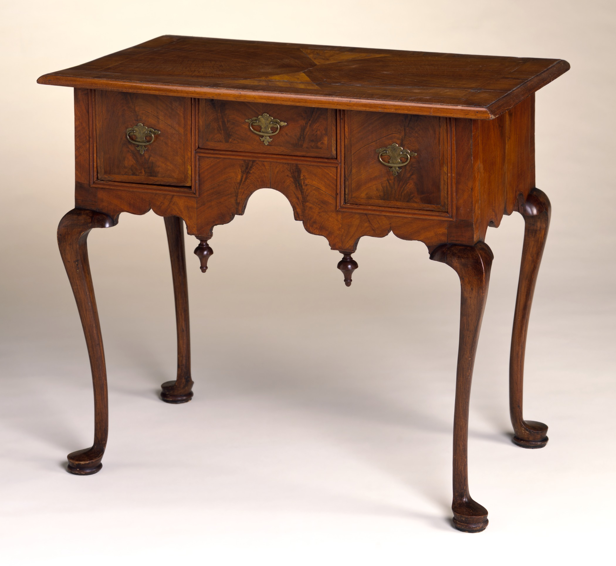 United States, Massachusetts, Boston, circa 1730-1750 Furnishings; Furniture Walnut veneer, maple, pine 28 x 33 1/2 x 22 5/8 in. (71.12 x 85.09 x 57.47 cm) Gift of Mrs. Murray Braunfeld (M.2006.51.1) Decorative Arts and Design